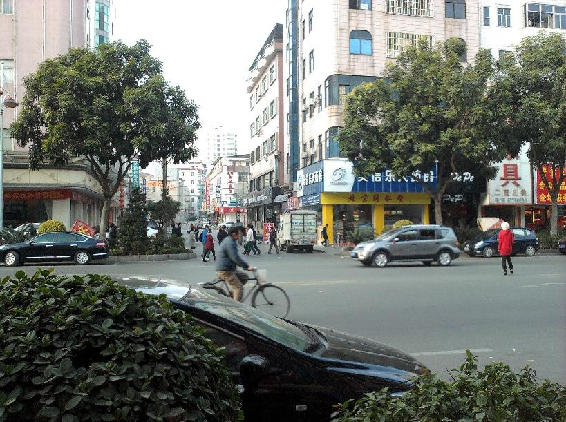 A small street of Fenggang Town, Dongguan.